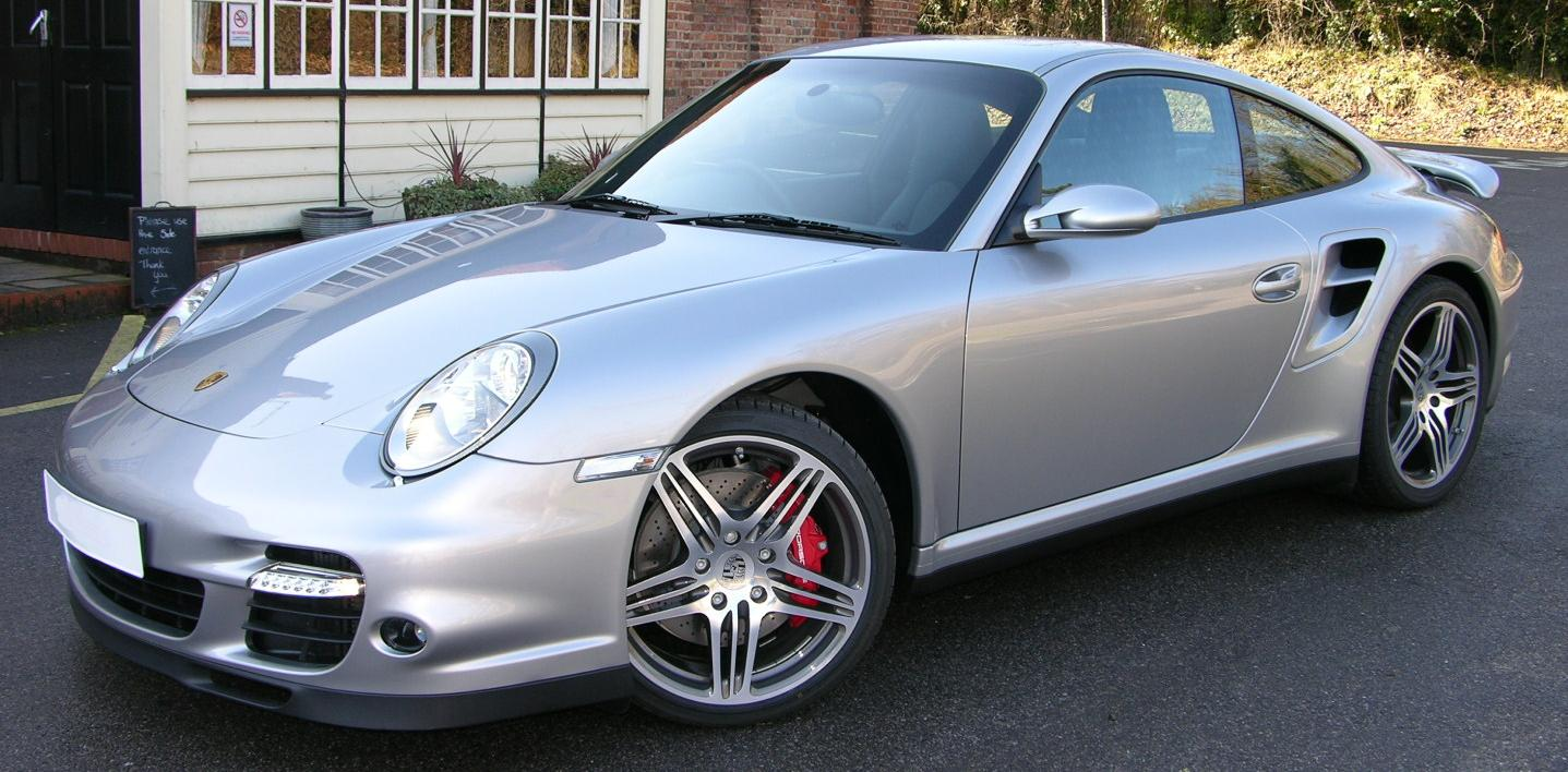 2009 Porsche 911 Turbo